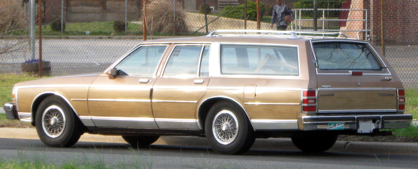 1987-1989 Chevrolet Caprice photographed in Washington, D.C., USA.